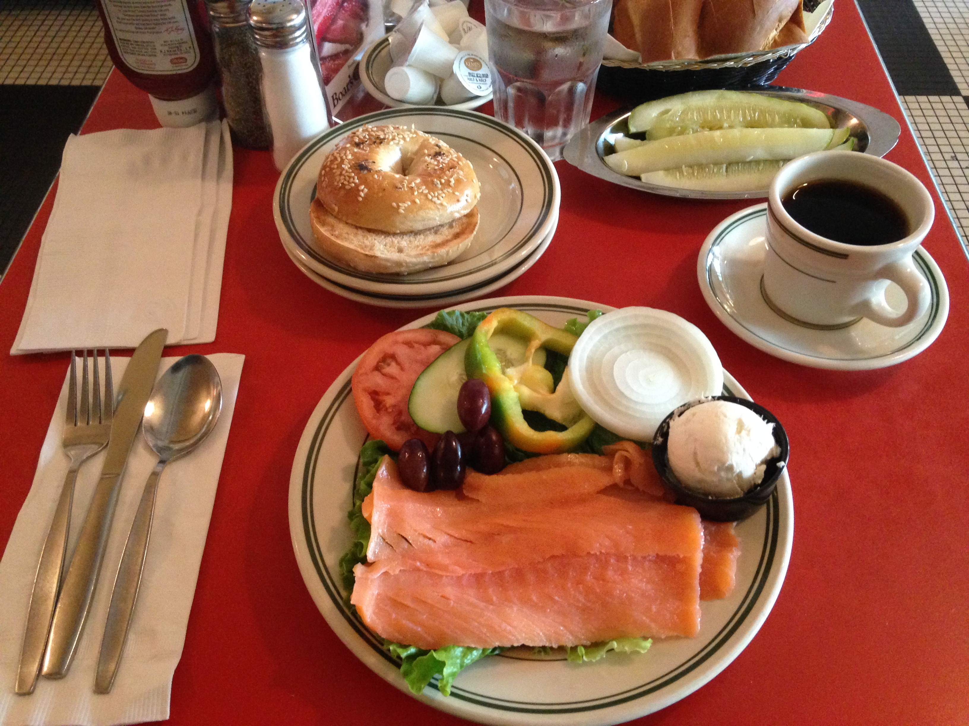 Nova lox, toasted sesame seed bagel, cream cheese, and optional toppings, before being assembled into a sandwich. This is the "lox platter for one" at The Bagel restaurant in Skokie, Illinois, United States.